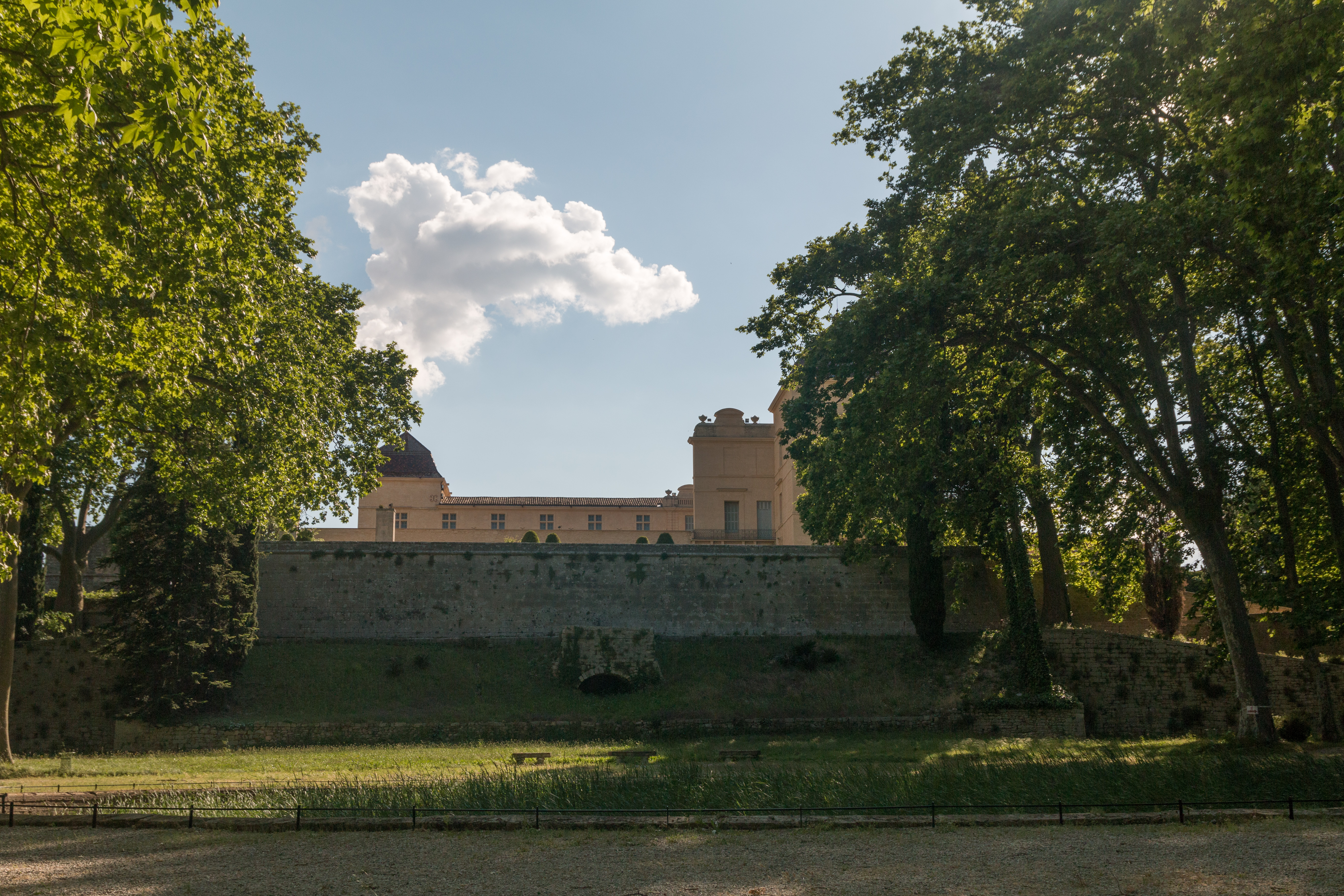 Vertugadin on there is the tank above which the lawns of the terrace are located.